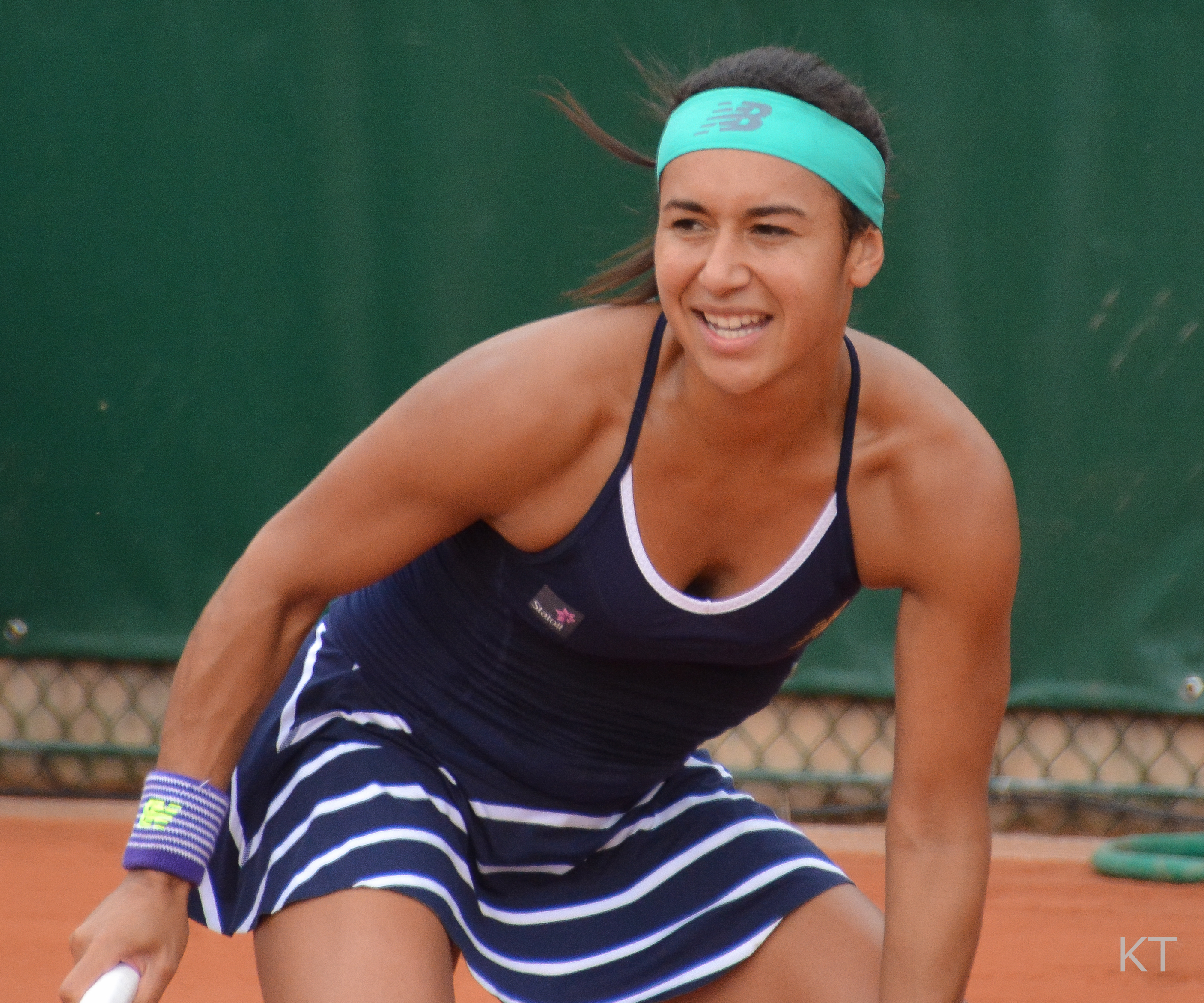 Day 5 of Roland Garros 2016.